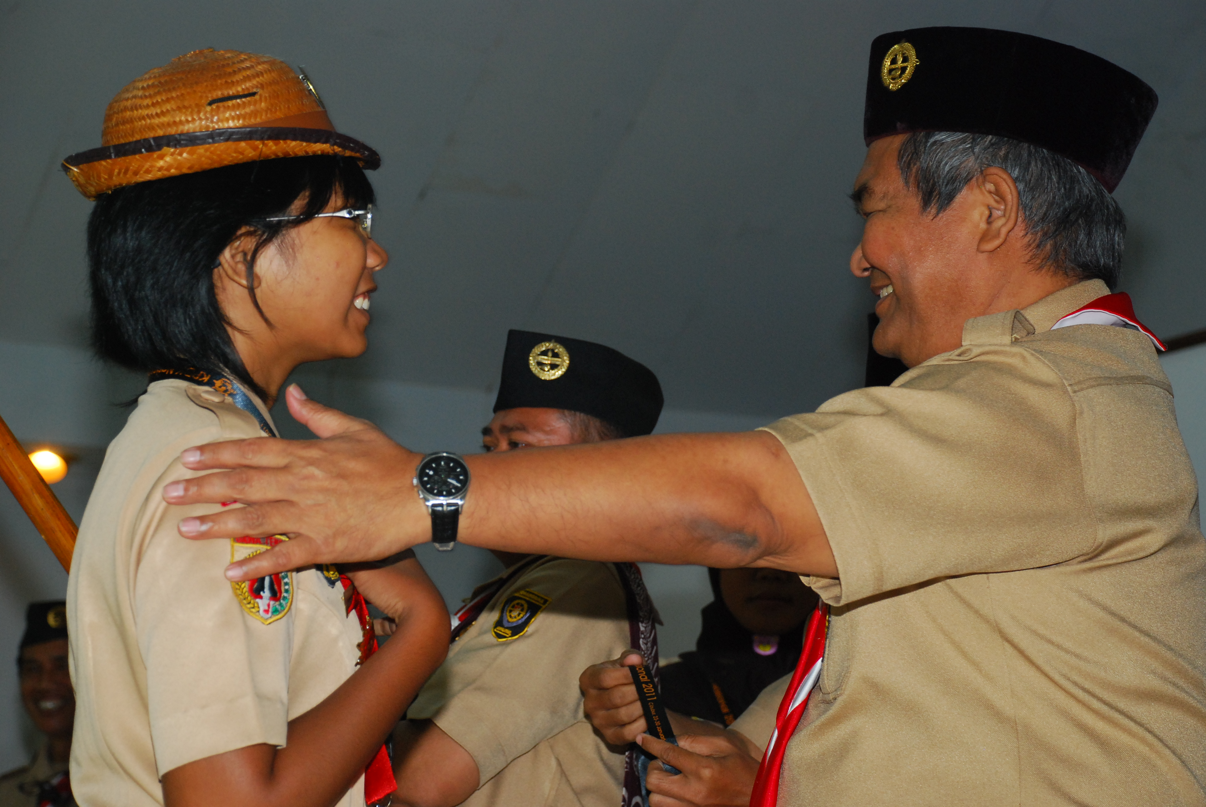 ketua kwartir nasional